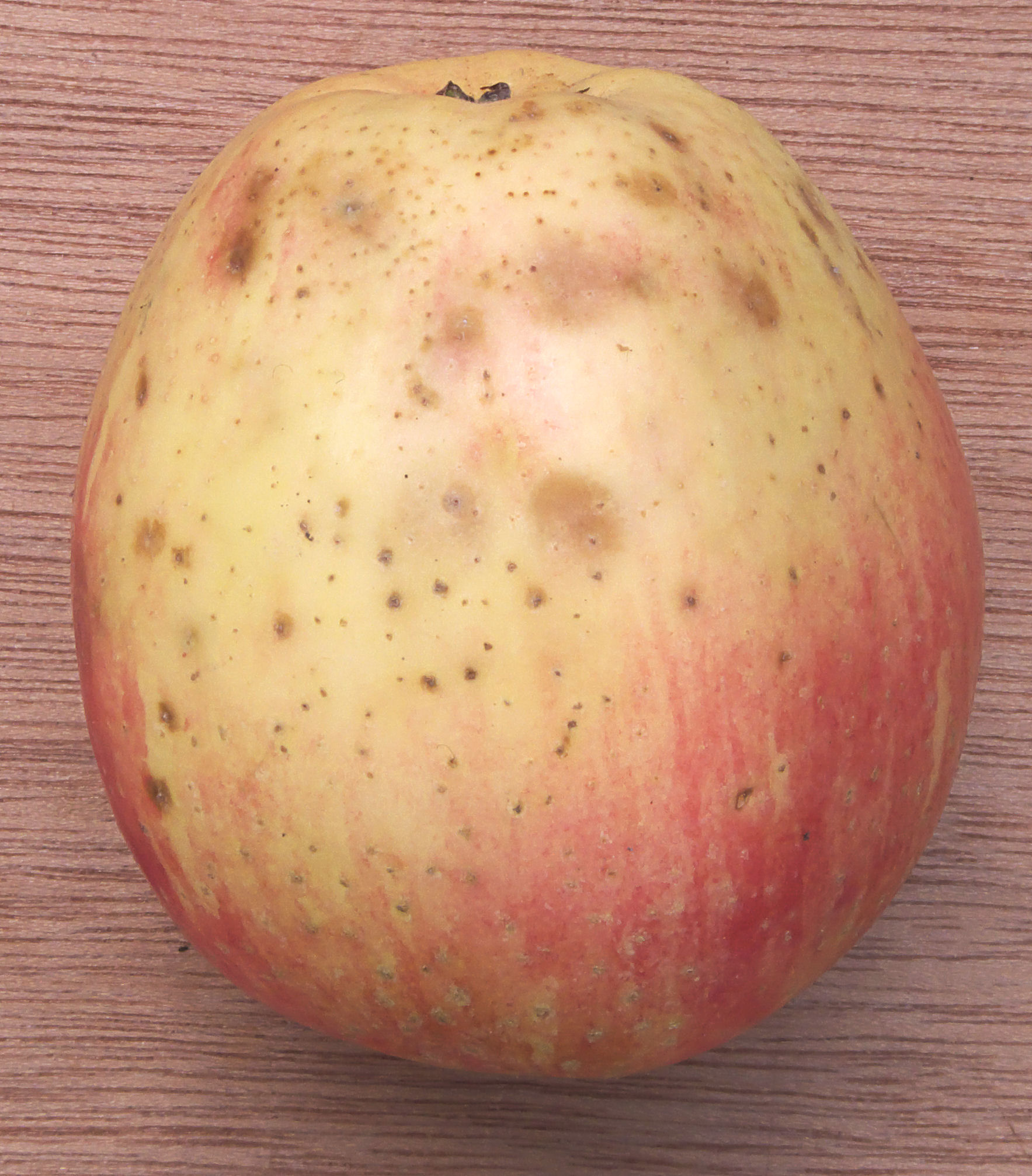 Malus domestica 'Summerred' bitterpit